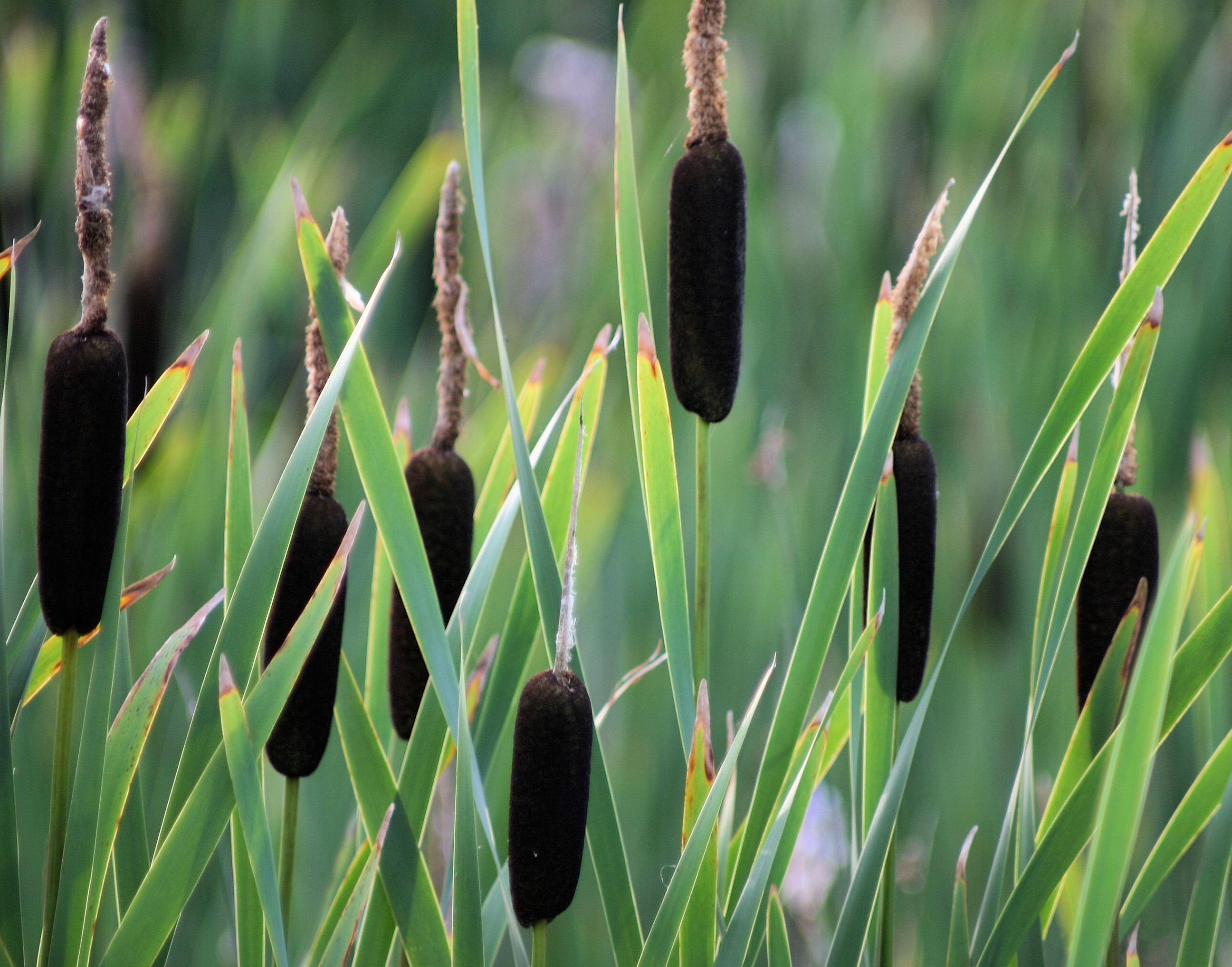 Typha latifolia a la campagne été 2008.